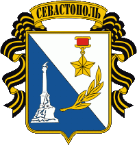 Official Coat of Arms of Sevastopol.